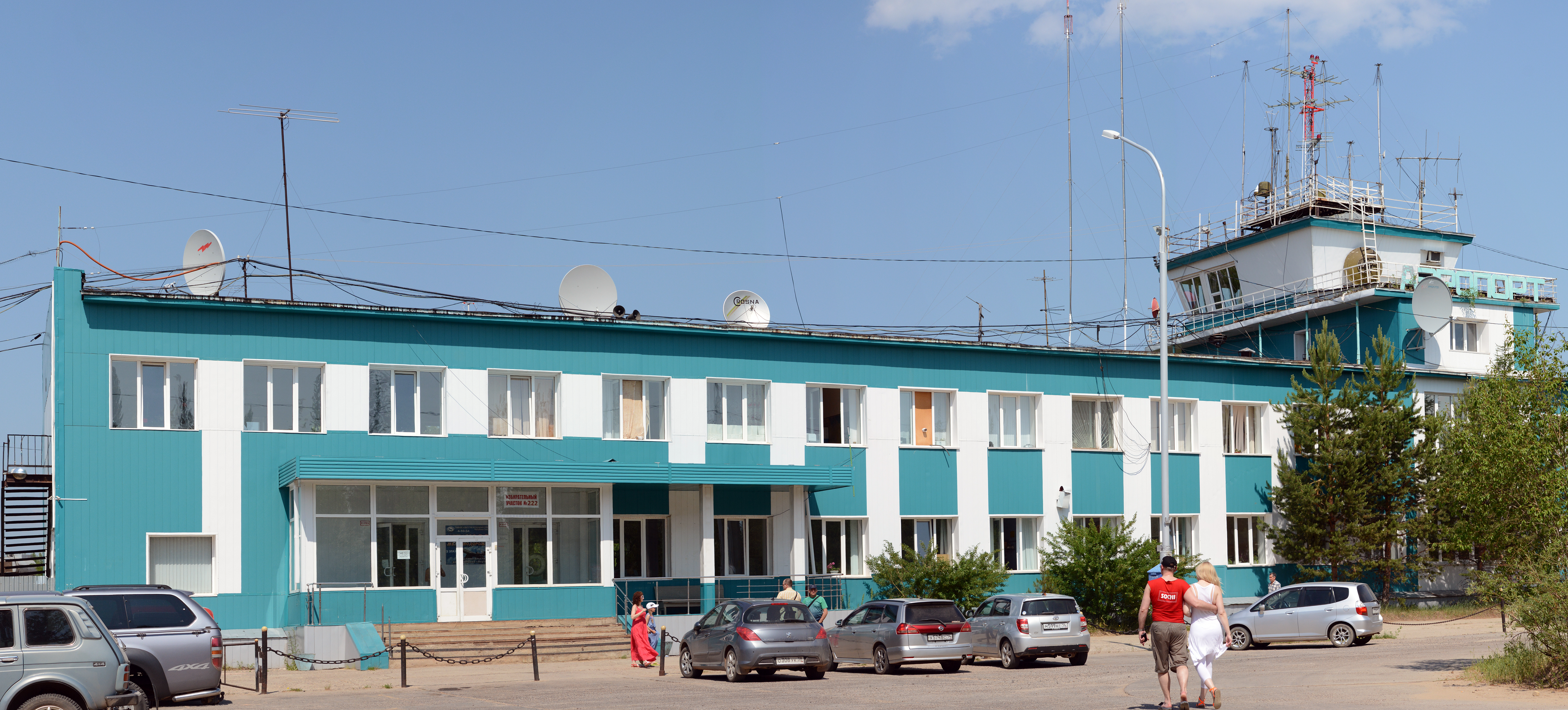 Aeroport Lensk, Sakha Republic, Russia